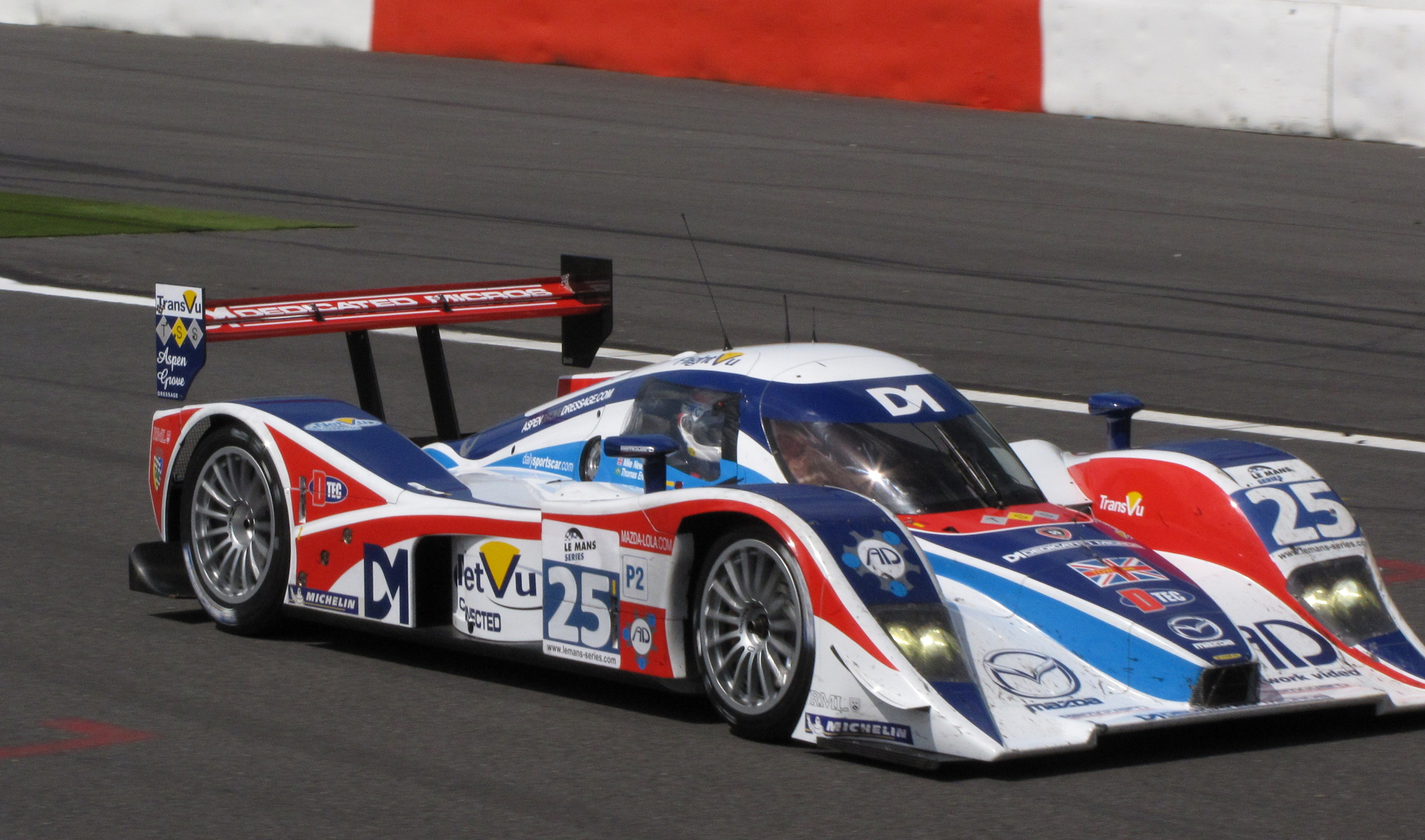 Mike Newton driving a Lola B08/80-Mazda at 1000 km of Spa 2009.